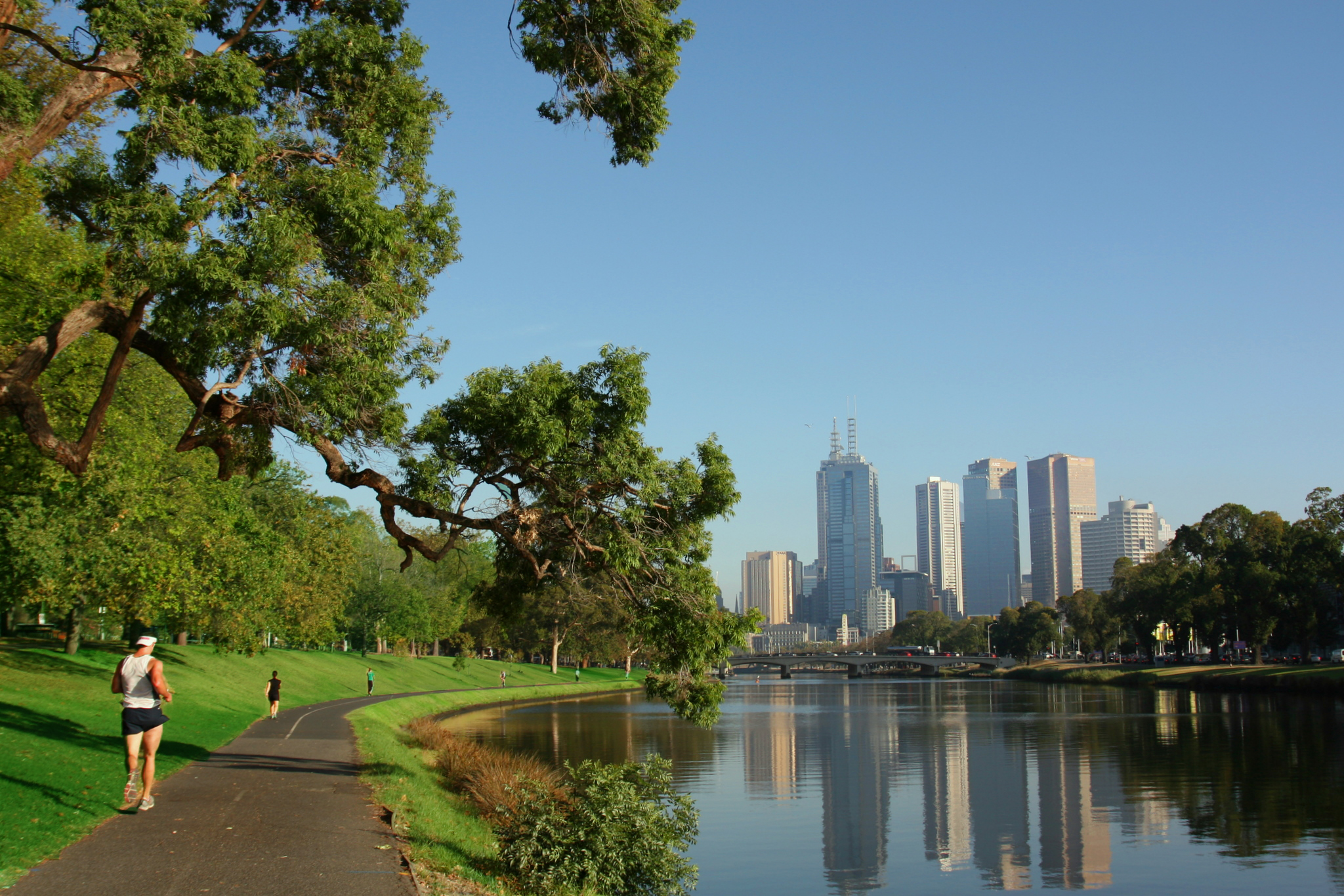 Melbourne skyline from the Yarra river in 2008. Have modified the image (saturation, contrast, toning) using Adobe Photoshop, the image is licensed under Creative Commons 2.0, permitting remix.